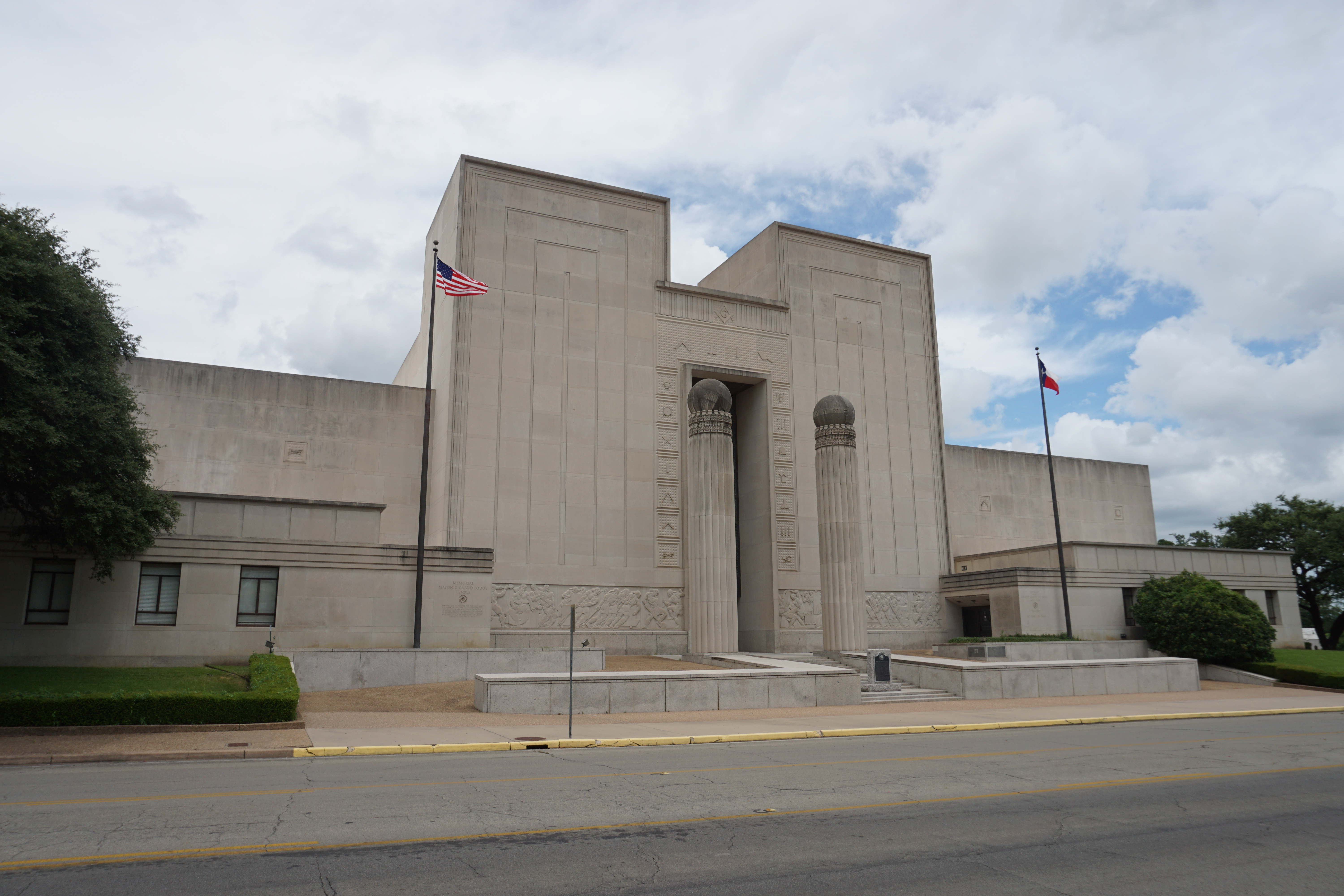 The Grand Lodge of Texas building in Waco, Texas (United States).